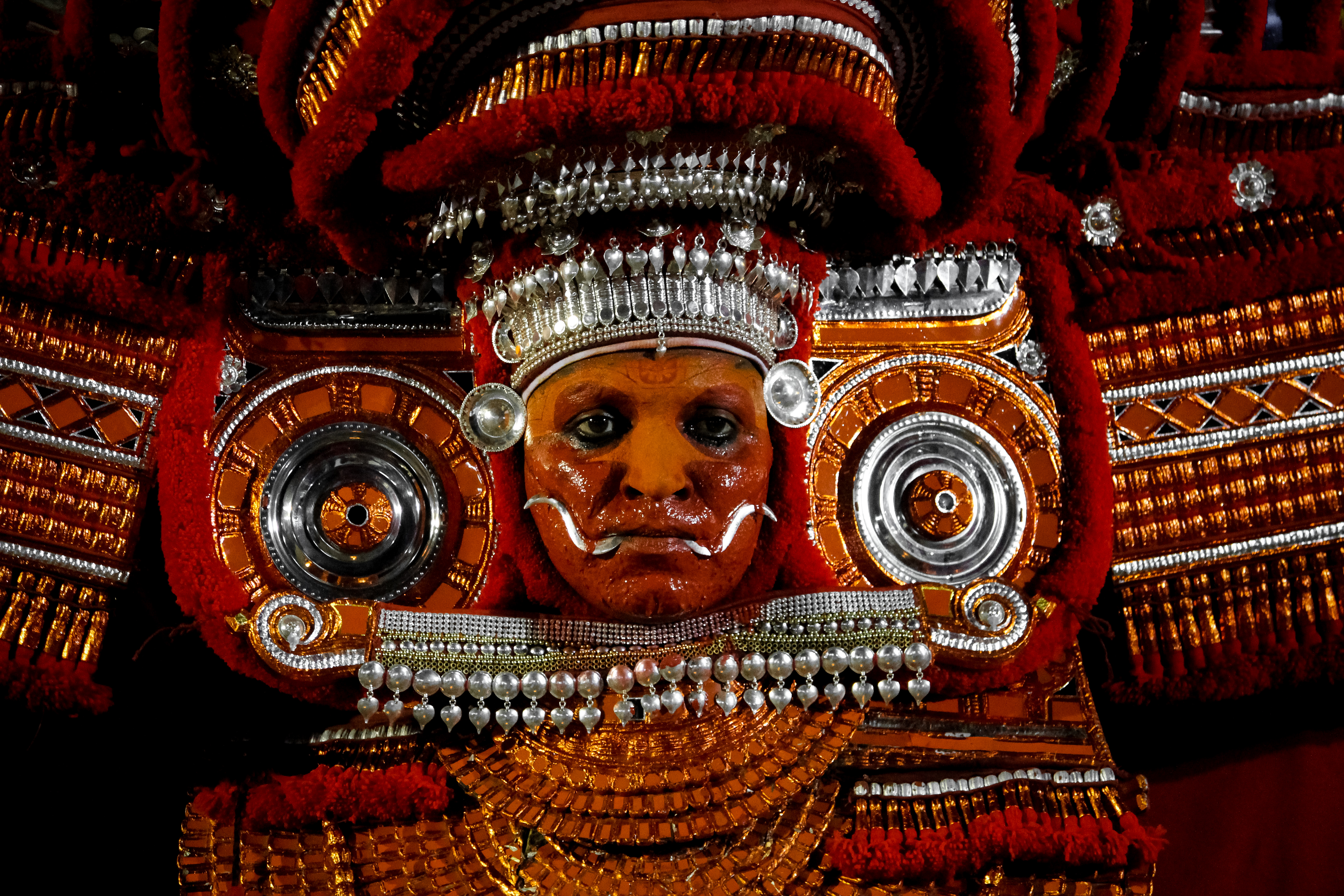 Theyyam is a corrupt version of the Word God's and during the performance actor is believed to be not a representative of God, but God himself This photo has been taken in the country: India